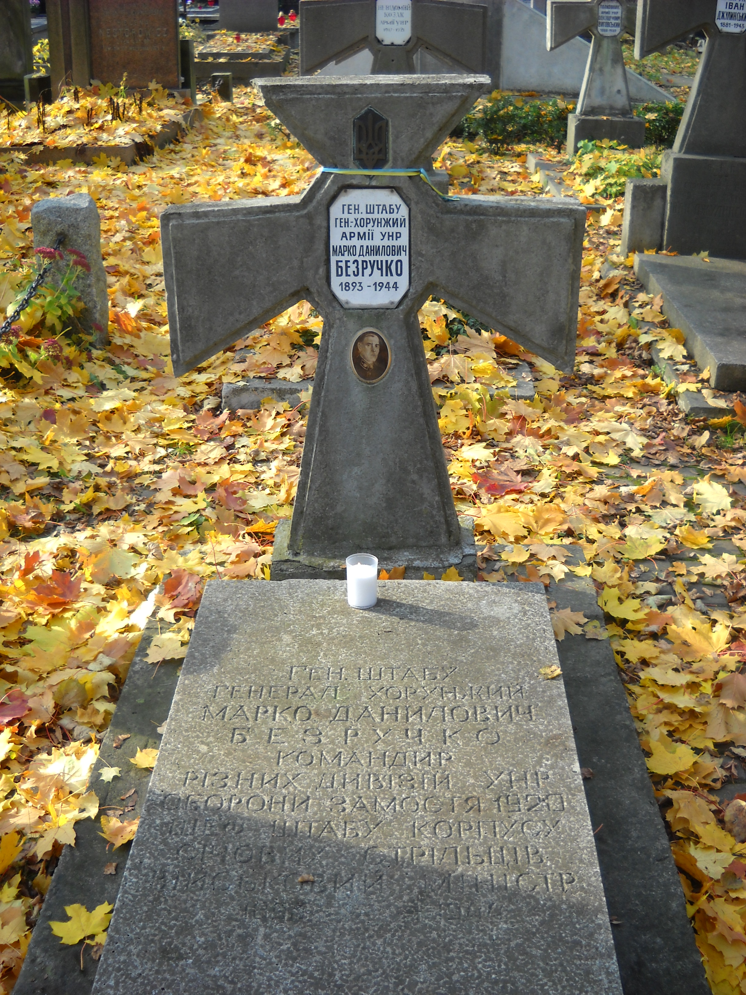 Grave of general Marko Bezruchko, an officer of Ukrainian National Republic army, in Warsaw